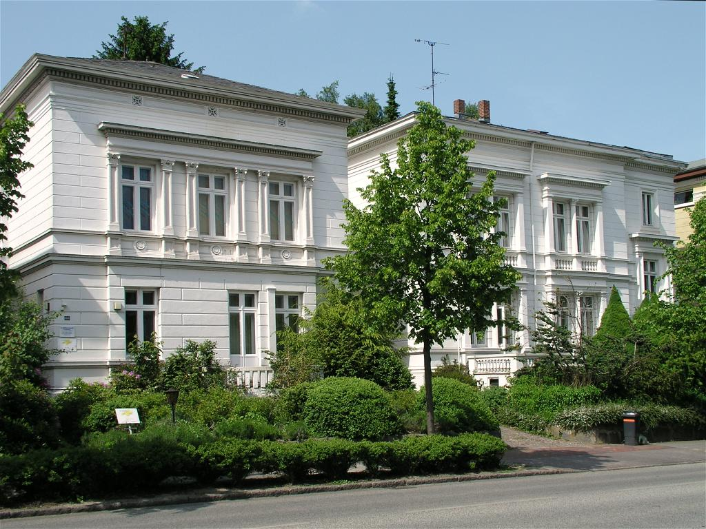 Eutin, Germany, Slesvic-Holstein: Plöner Str., photo 2003